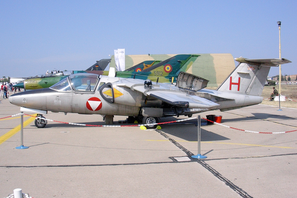 Saab 105 (code H red) of Austrian Air Force as a static exhibit at Archangelos International Air show, Tanagra AFB-LGTG, Greece